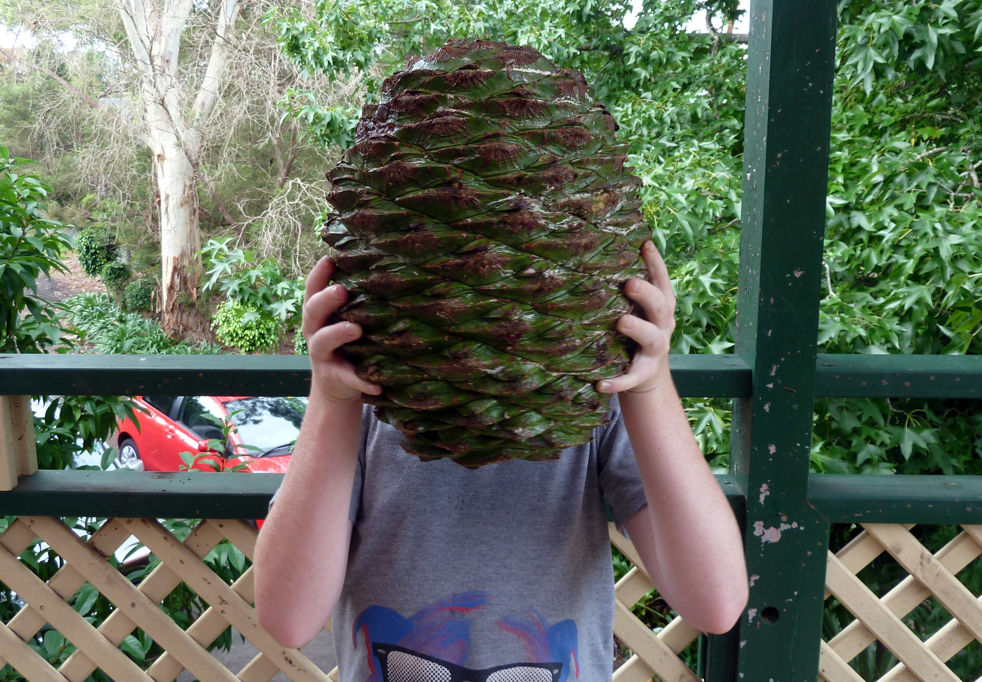 This is a Bunya cone that was found in the Cumberland State Forest, Sydney, NSW, Australia on 28th January 2012